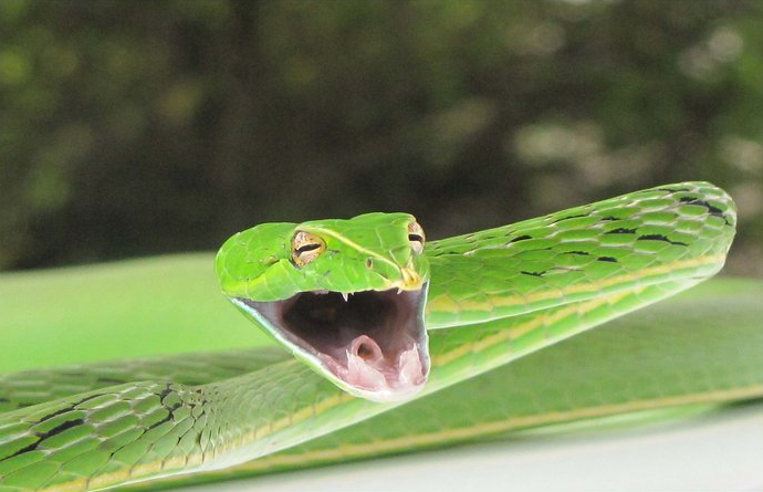 Common Vine Snake (Ahaetulla nasuta)